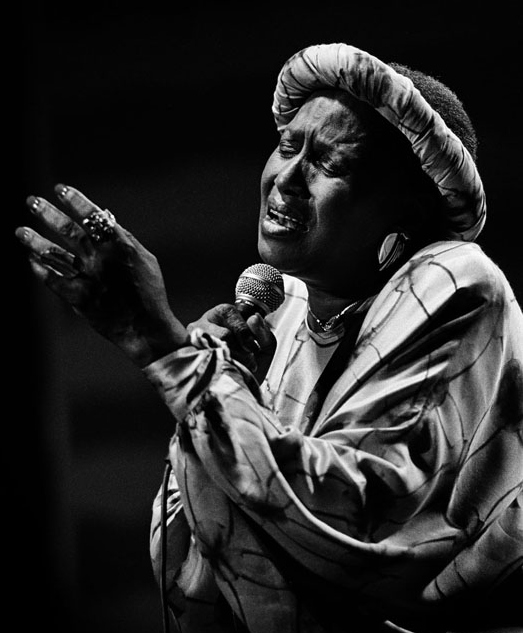 Legendary South African singer Miriam Makeba, taken by Paul Weinberg